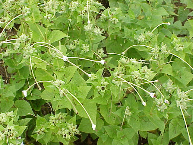 Species: Mirabilis longiflora Family: Nyctaginaceae Image No. 6